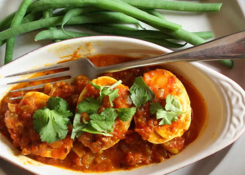 For this northern Indian vegetarian recipe